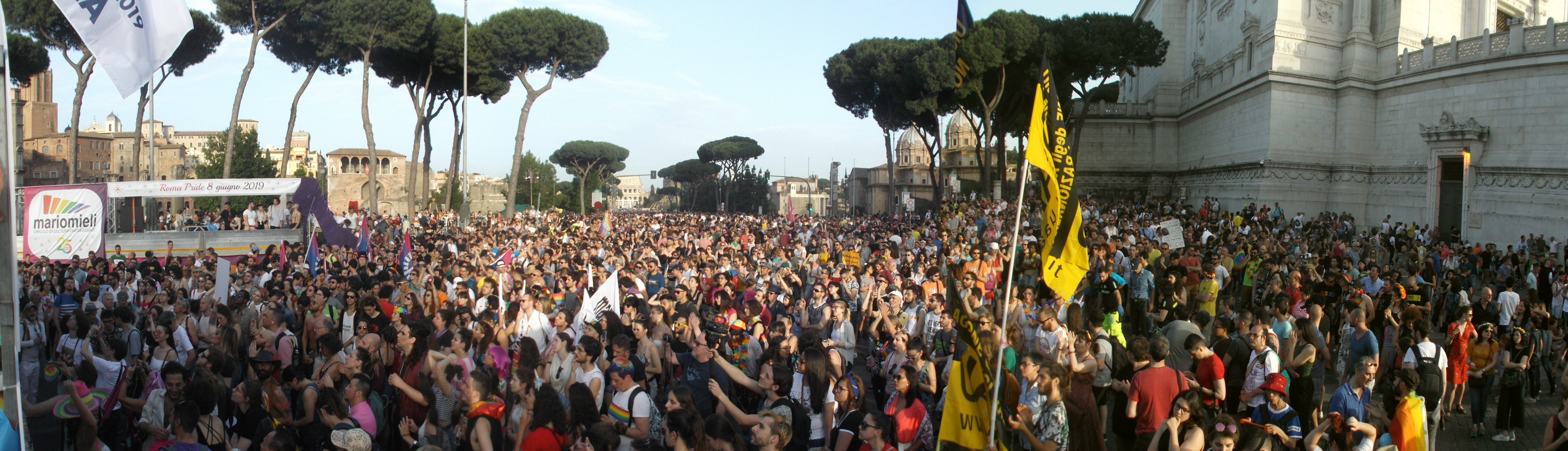 Panoramic of the crowd participating to 2019 Rome Pride that arrived in Piazza Venezia